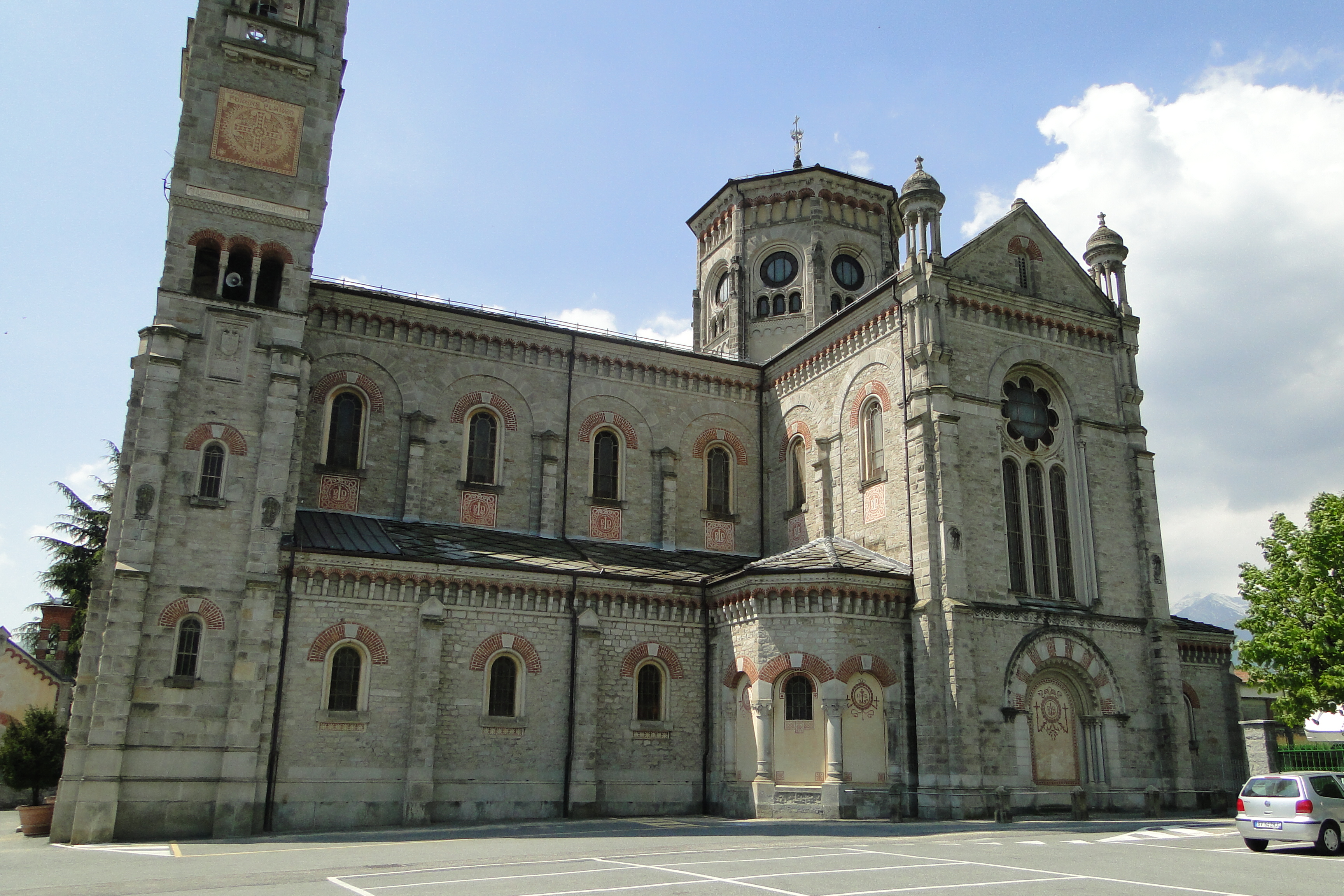 Northeastern side of the Selvaggio's Sanctuary in Giaveno (Italy)